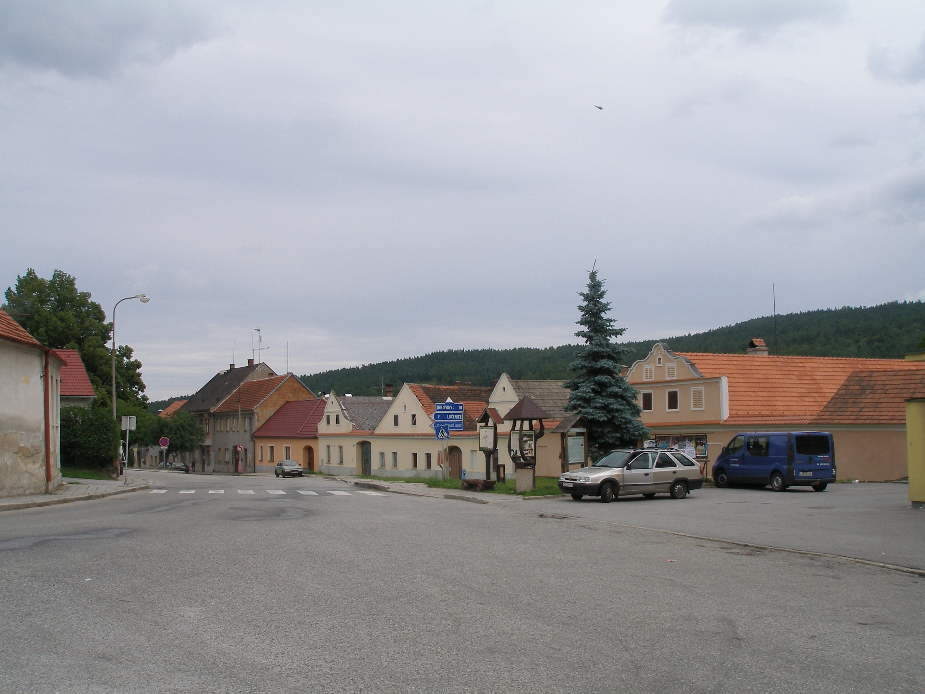 Besednice - the southern side of the square